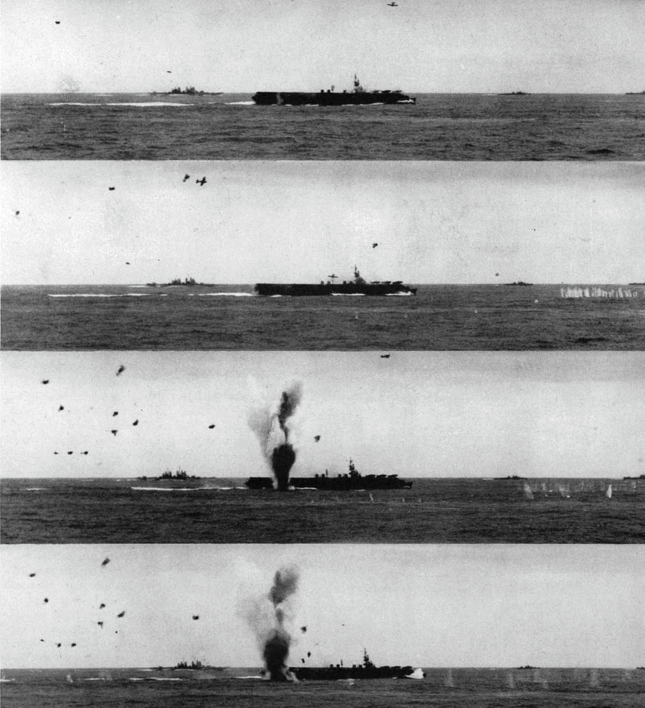 A Japanese Mitsubishi A6M kamikaze barely misses the U.S. Navy light aircraft carrier USS Belleau Wood (CVL-24) on 6 April 1945. The aircraft hit the water about 30 metres from the starboard side abaft the stacks. Shrapnel from a bomb carried hit the ship and the aircraft's propeller hit the flight deck.